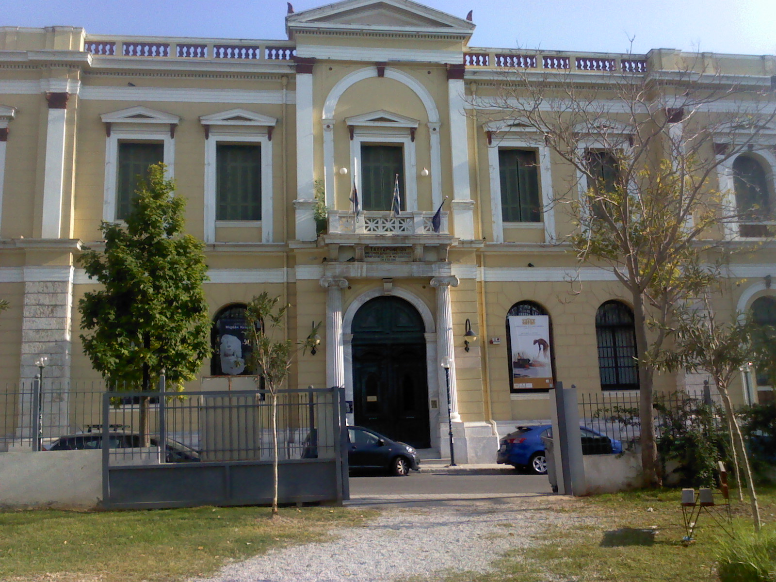 Mail Pireas